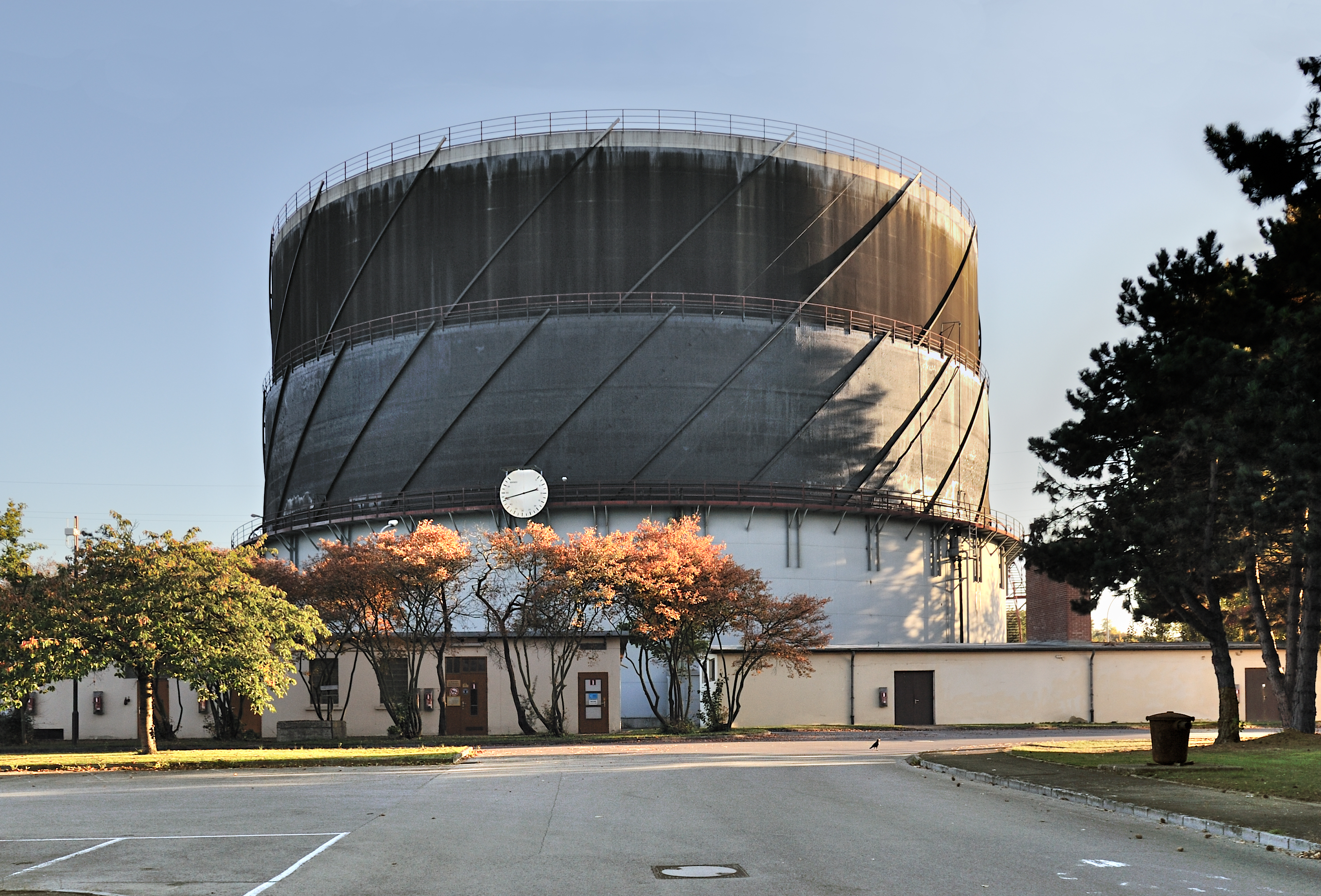 Gasholder in Luxembourg Hollerich (dismanteled in 2015).